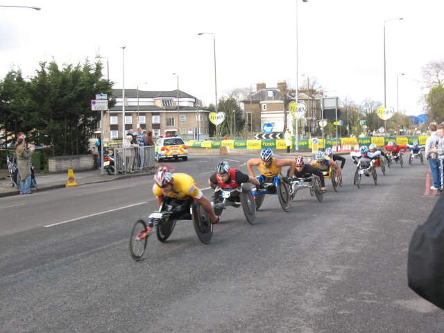 London Marathon at Shooters Hill - wheelchairs The leaders of the 2008 wheelchair race about a mile from the start, on Shooters Hill. These carbon-fibre wheeled machines are more like racing bikes than standard wheelchairs.